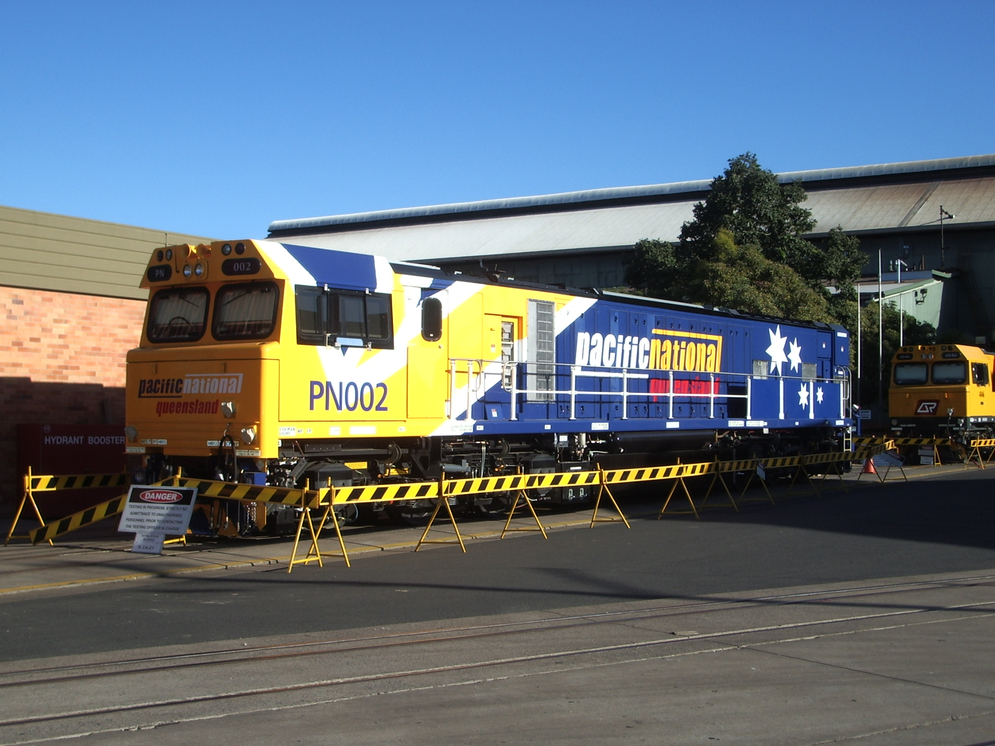 On the 28th Nov 2004, newly outshopped PN Class Loco PN002 (and QR National Loco 4046 in the background) stands out front of the Downer EDI factory in Maryborough, Queensland, Australia. A total of thirteen of these 1067mm gauge locos were ordered by Pacific National Queensland for use on the Brisbane to Cairns corridor, intermodal services where they continue to serve as of February 2014.